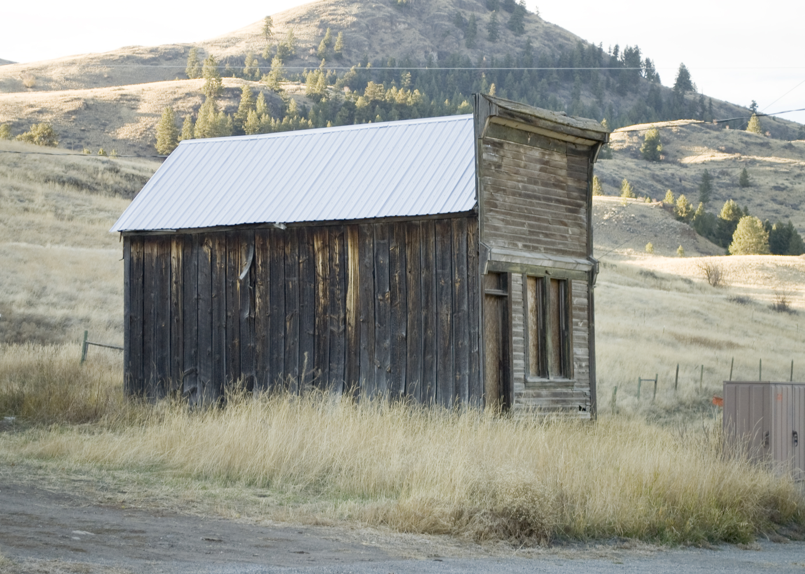 A photograph of a False-Front building in Chesaw, WA. This building is believed to have been the office of the US Customs Service until it closed in 1955.